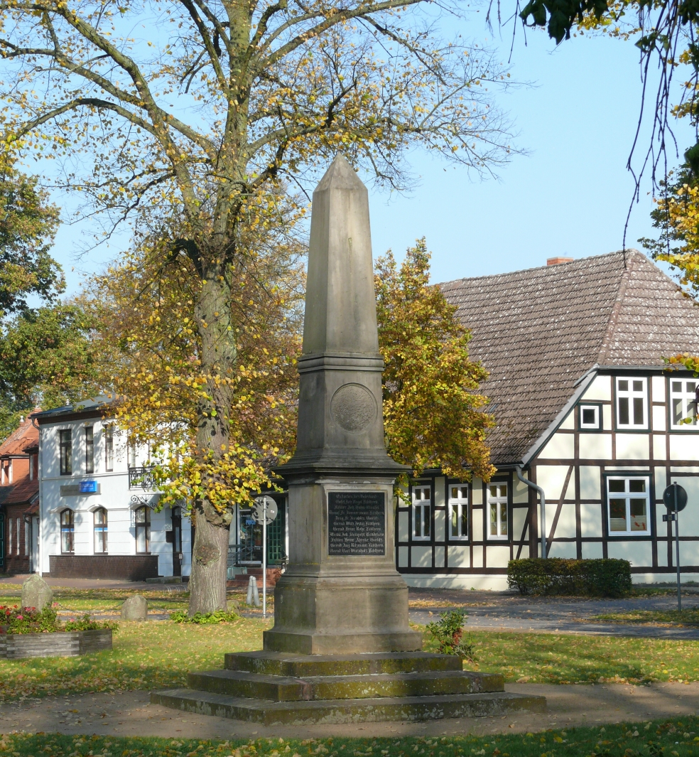 War memorial 1870/71 in Lübtheen, im Hintergrund die Alte Schule (Heimatmuseum)